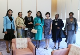 Mrs. Akie Abe held a meeting with Their Royal Highnesses Queen Carol LaNgangaza, Queen LaMagongo, Queen Ayanda LaNtentesa, and Queen LaNkambule. While introducing her own efforts to raise awareness of HIV/AIDS prevention, Mrs. Abe conveyed her wish to cooperate with Their Highnesses to further promote women’s participation in society.